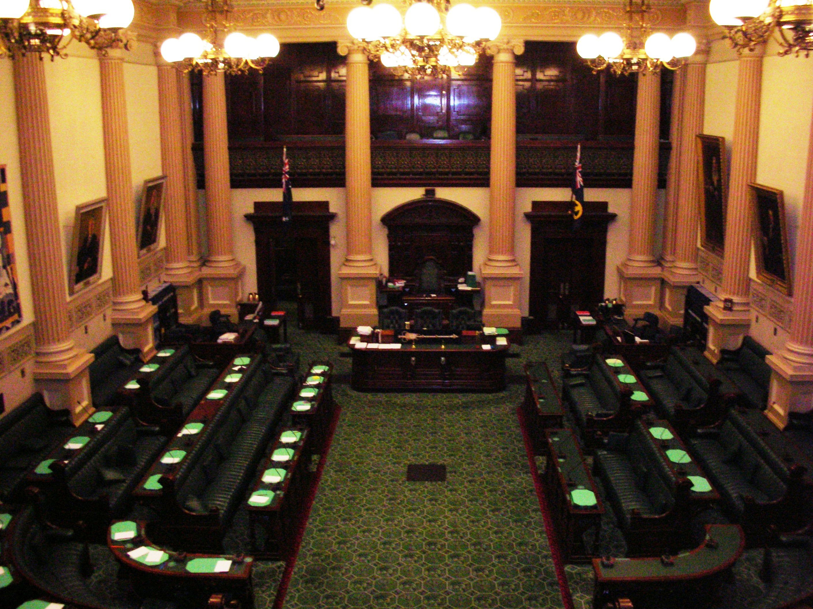 South Australian House of Assembly.